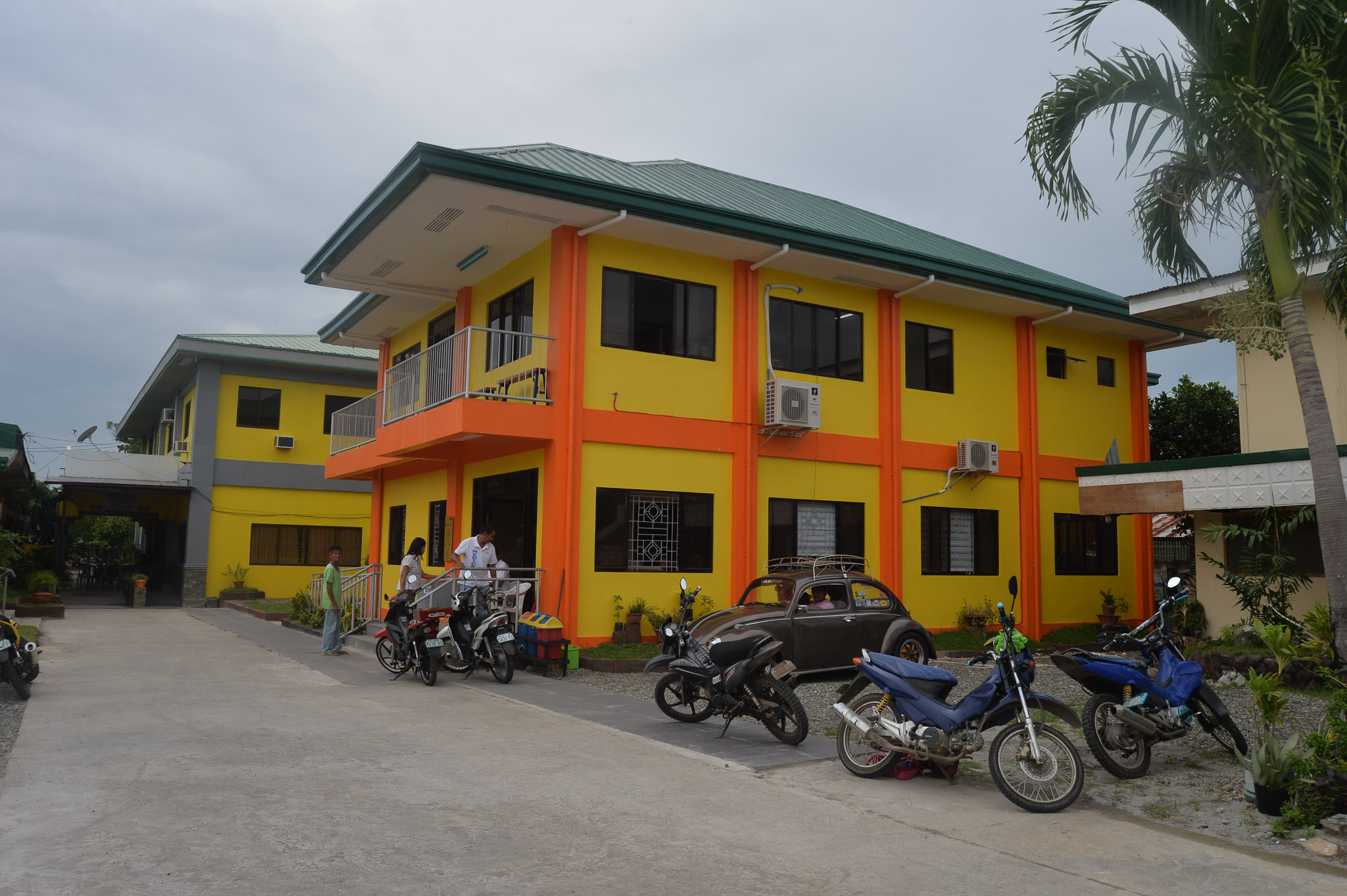 Cadiz City, Negros Occidental, Philippines